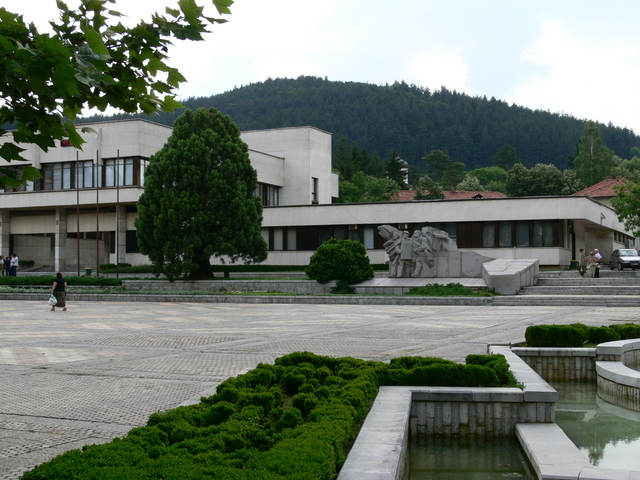 Troyan, Town in Bulgaria